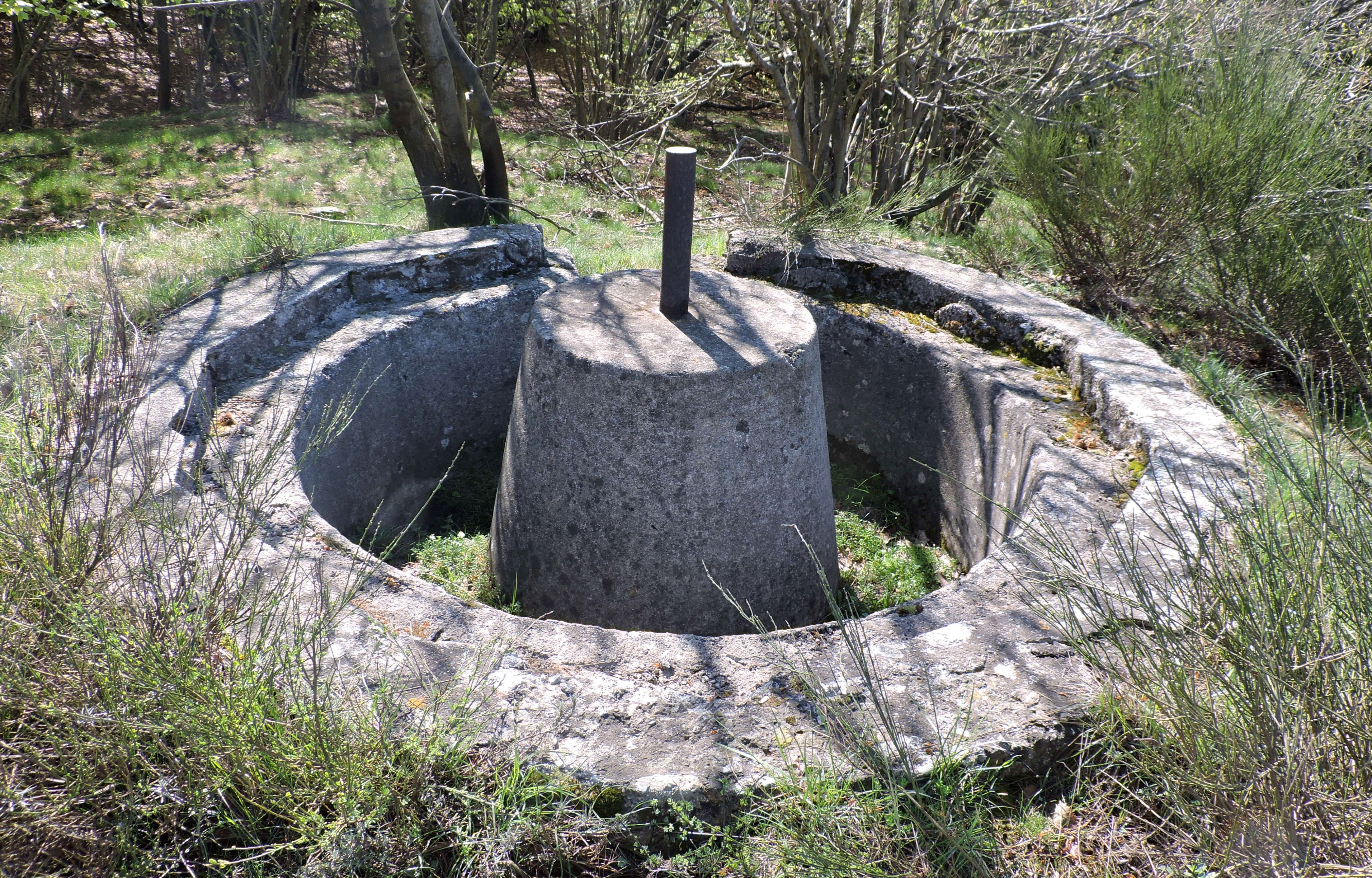 Monte Burot (Ligurian Prealps, SV, Italy)ː artillery basement